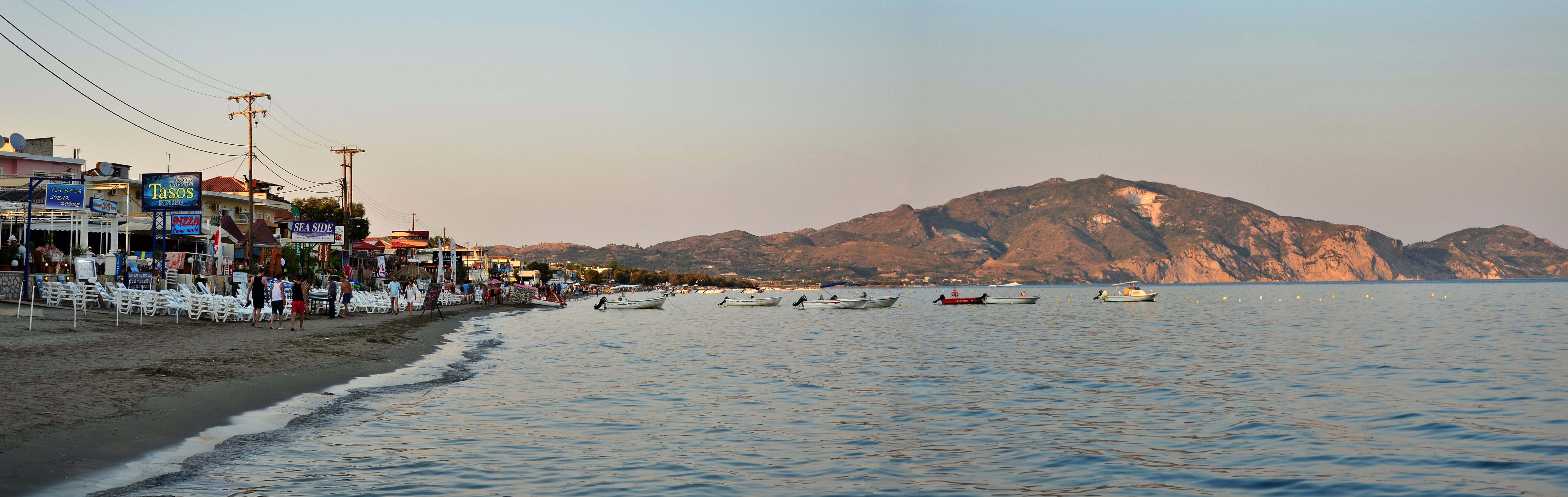 Beach in Laganas, Zakynthos, Greece